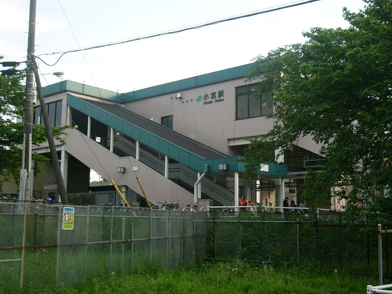 Komiya Station (North Entrance)